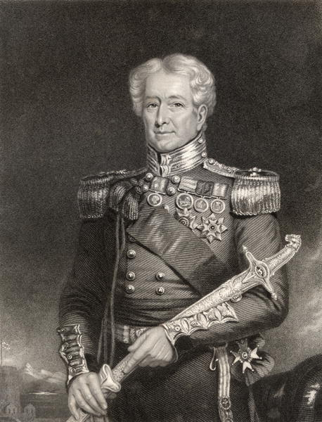 Sir Robert Henry Sale, engraved by F. Holl, from 'The National Portrait Gallery, Volume III'